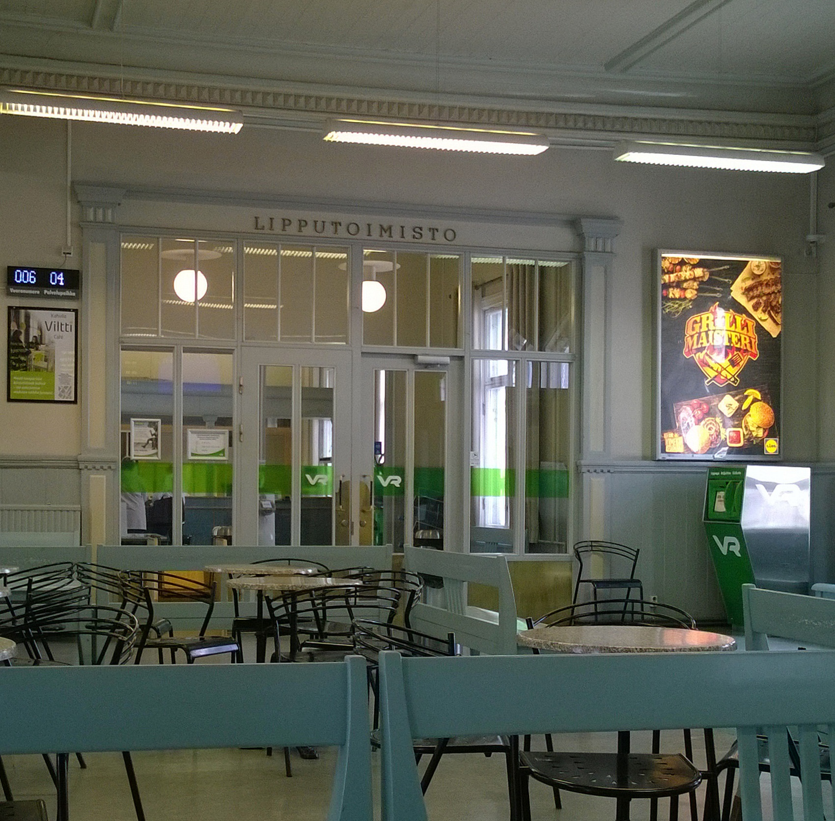 Interior of the station building in Oulu.